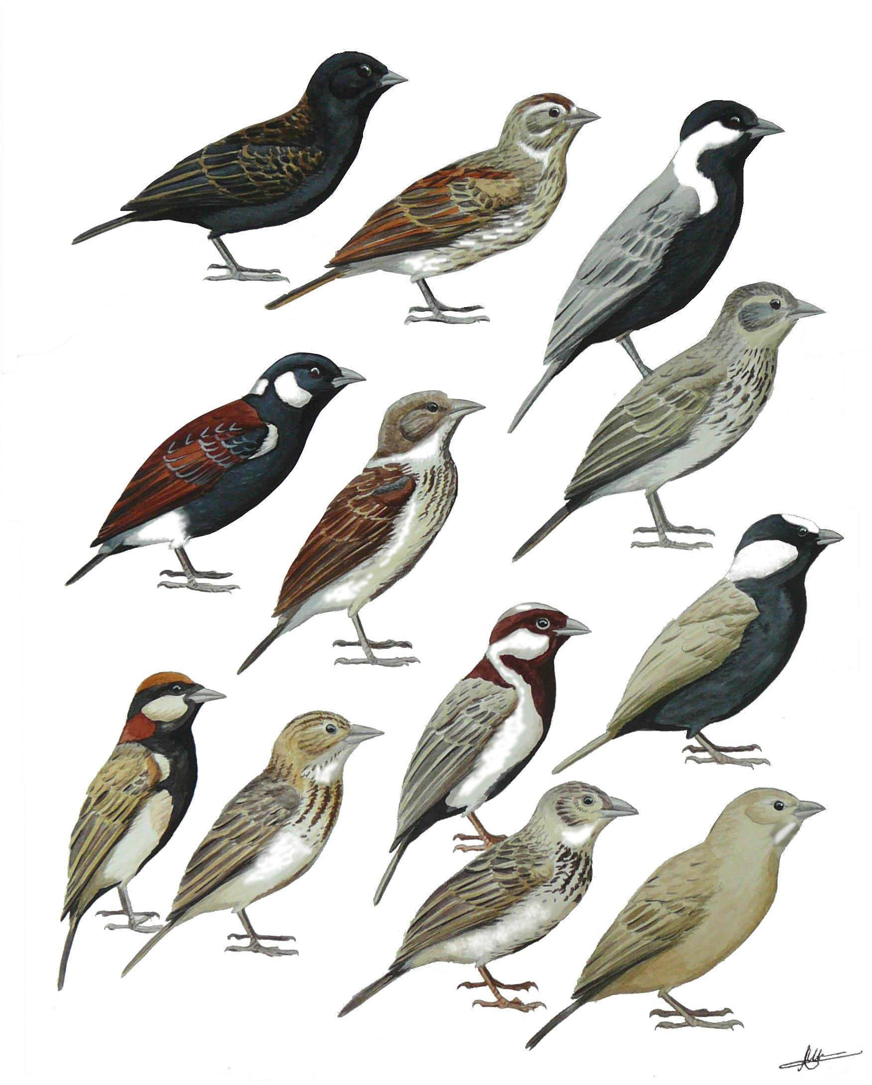 The six species of Sparrowlarks on the African mainland – Risso Romain, Nice